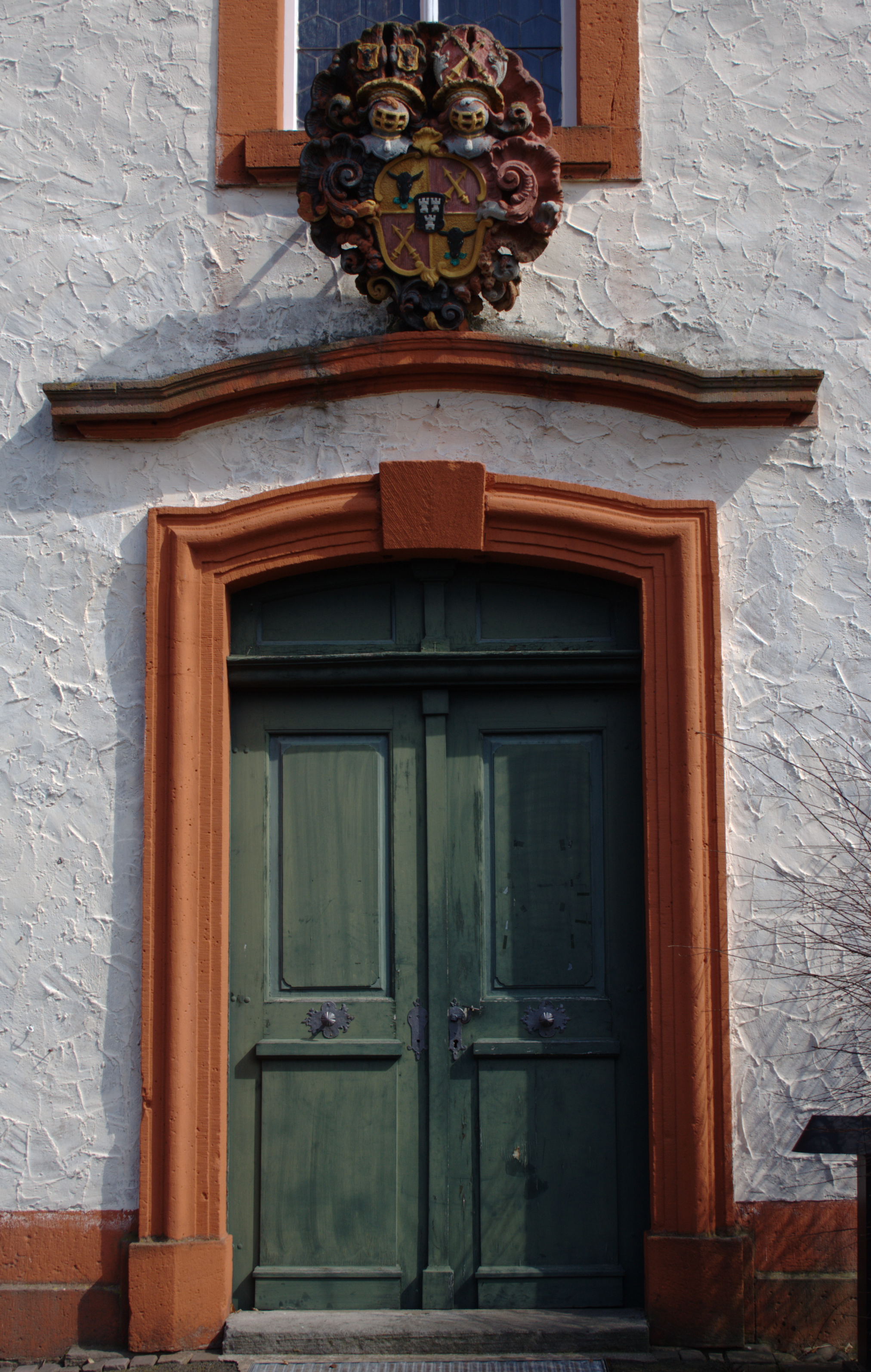 Protestant church (portal) in Wartenberg, Angersbach, Hesse, Germany.